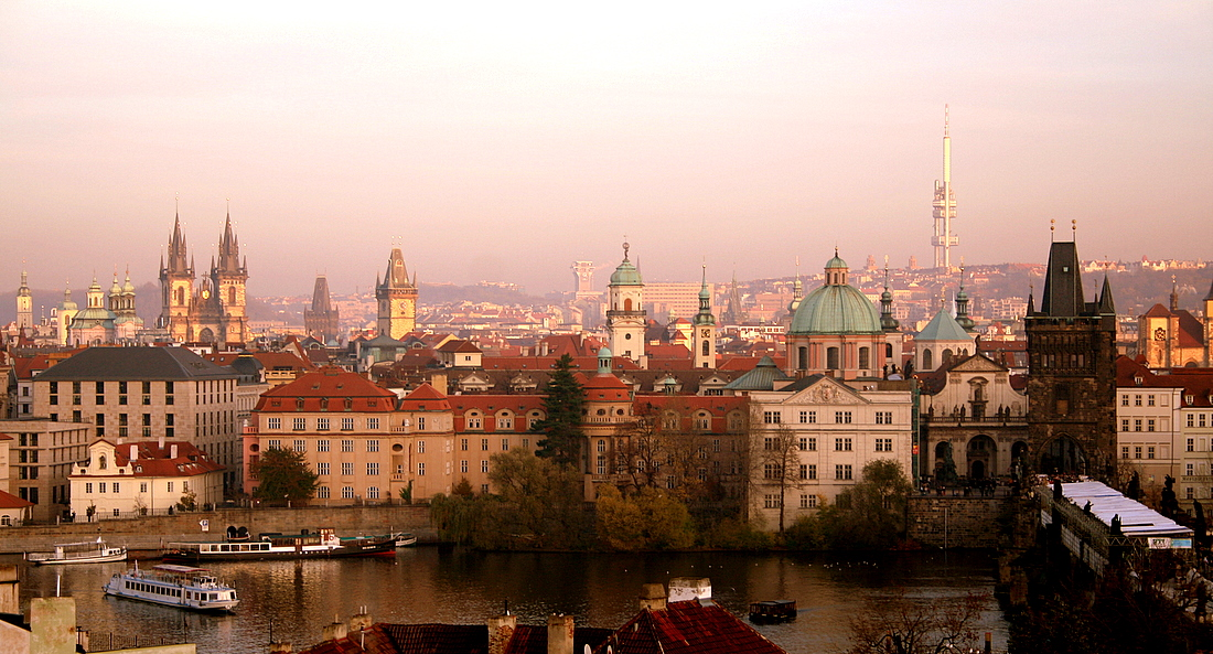 A beautiful,panoramic view of Prague from the Charles Bridge Tower.